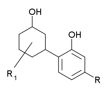 General structure of cyclohexylphenols